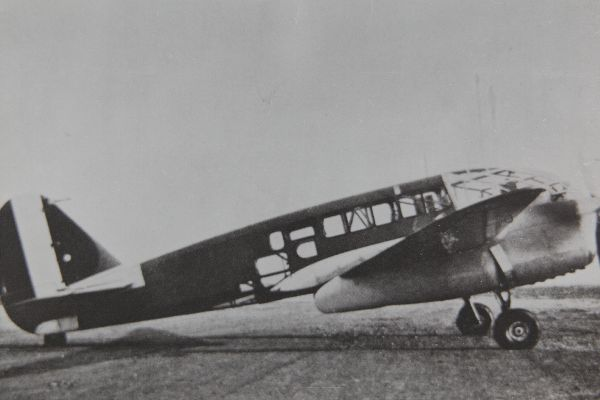 Italian Caproni Ca.313 reconnaissance aircraft/bomber